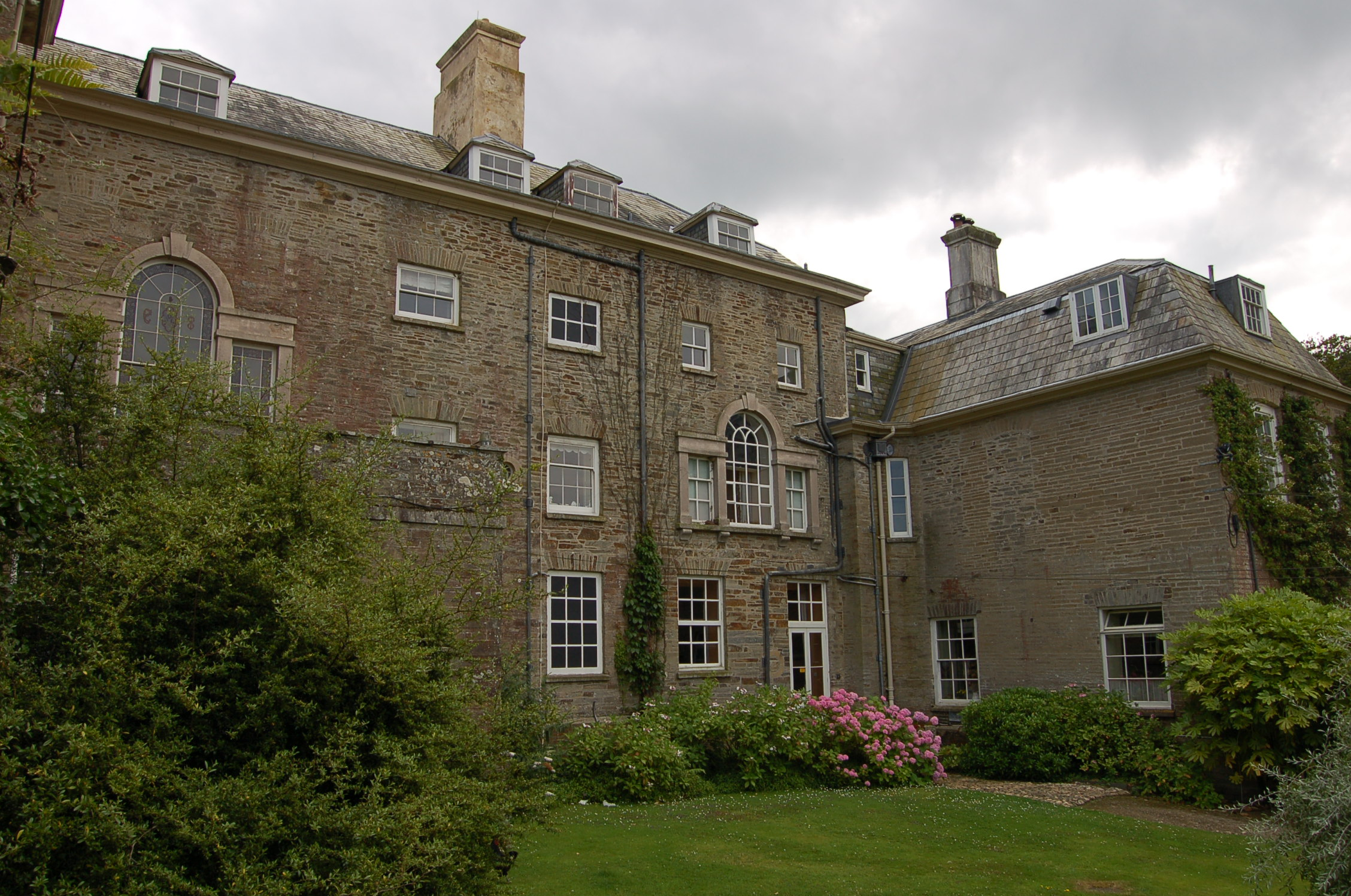 Pencarrow House, Cornwall, England